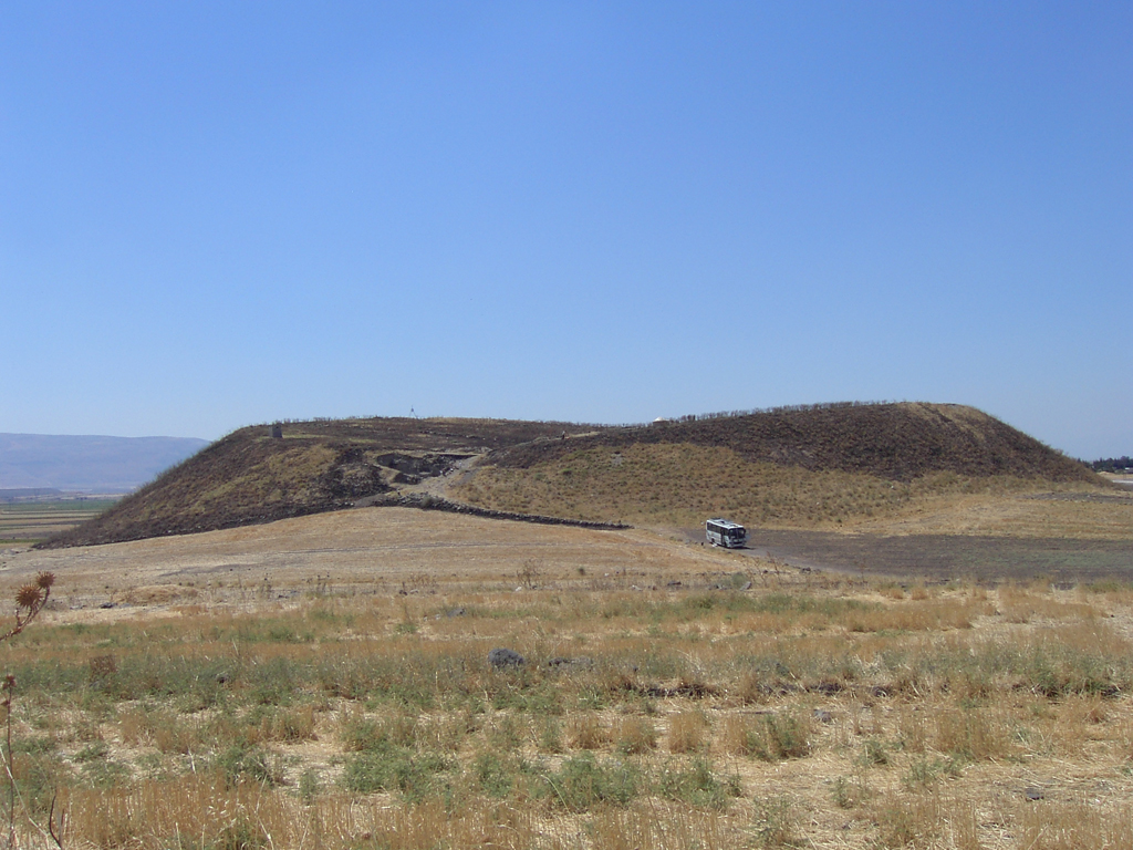 This photograph, taken facing south from the northern and lower mound of Tell Qarqur, shows the upper mound of the site. Portions of an archaeological exposure can be seen on the slope of the high mound. Note the bus for scale.